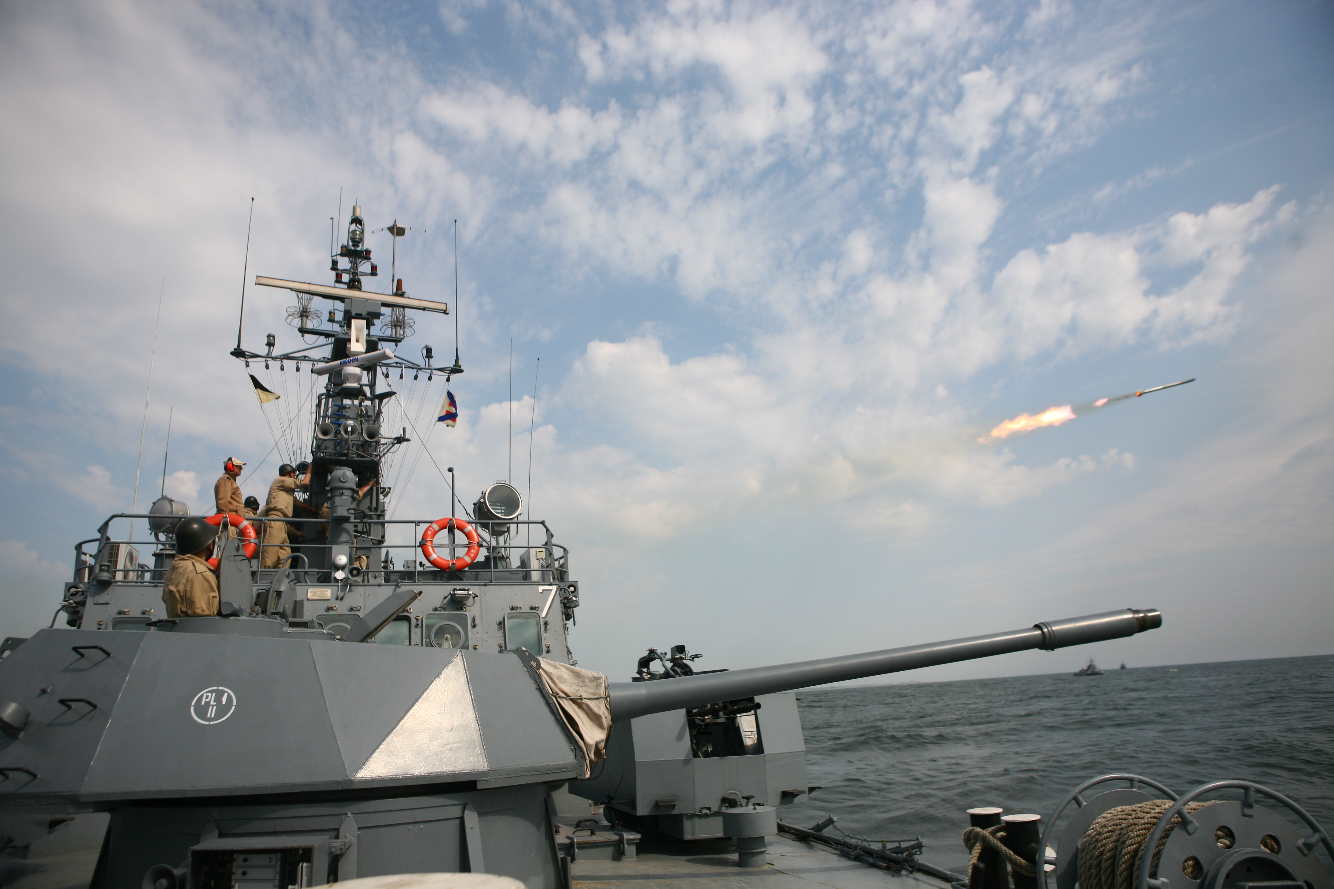 CA-94 missile launch from a river monitor during a naval firing exercise in the Black Sea, near Capu Midia.